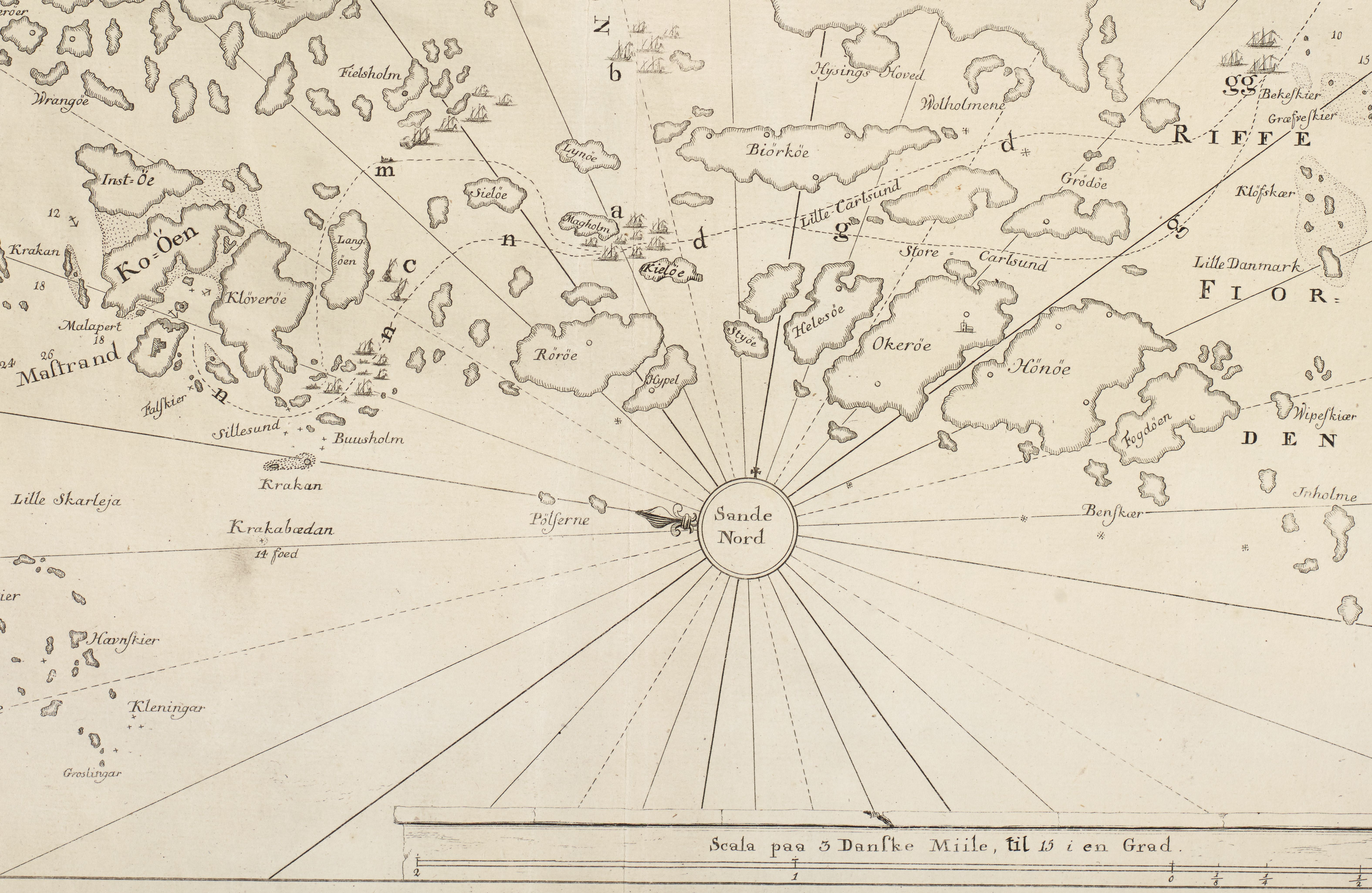 Detail of the archipelago between Gothenburg and Marstrand on the westcoast of Sweden. Letters marking events during the danish attack at Nya Varvet naval shipyard, on 8th October 1719. View from west.